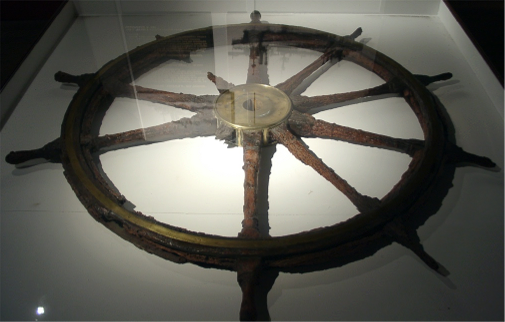 The emergency steering wheel from HNoMs Norge, retrieved from Narvik harbour by divers in 1983. Picture taken by uploader at the Armed Forces Museum in Oslo, Norway. Released under the GFDL.